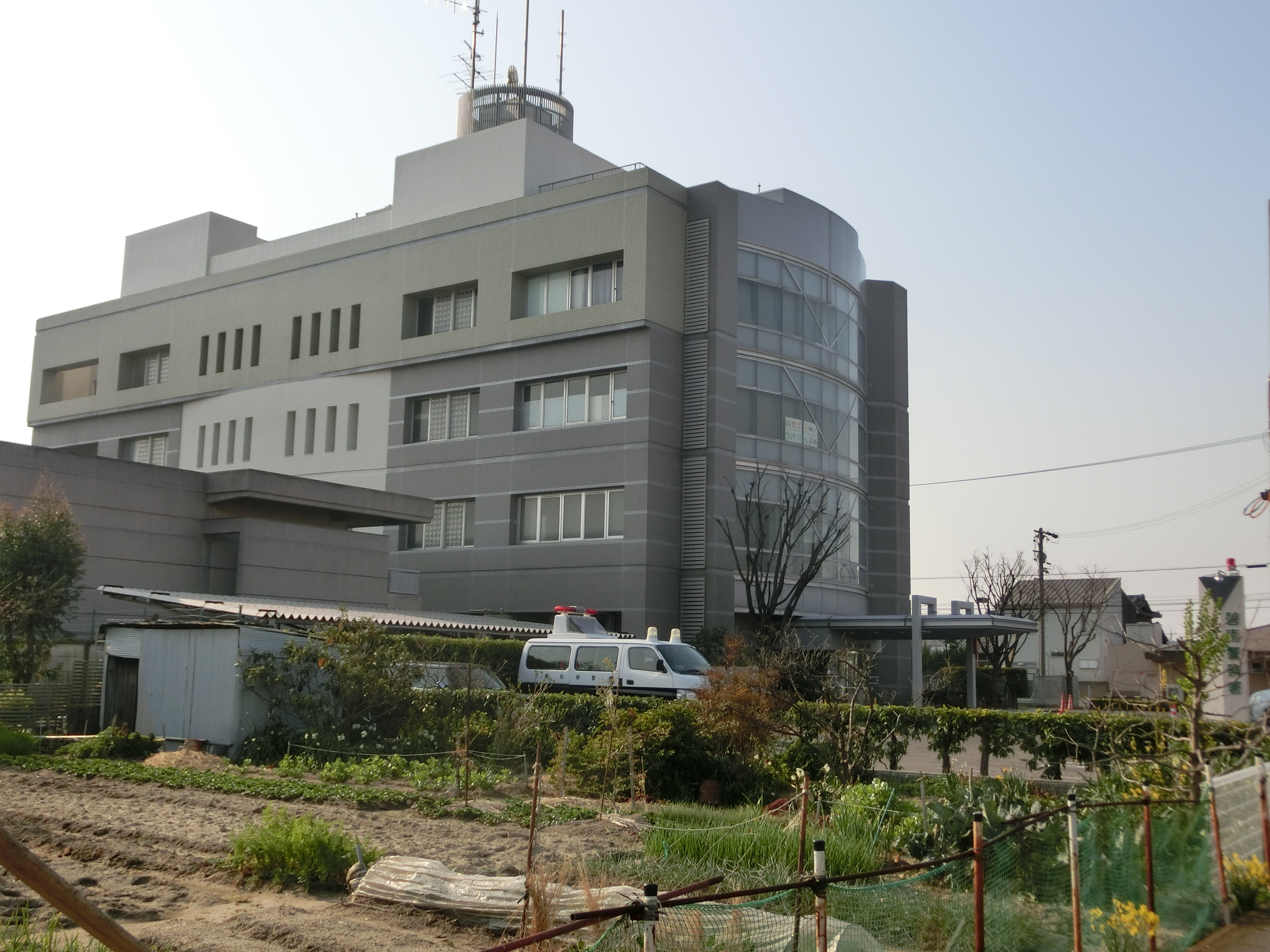 Hekinan Police Station